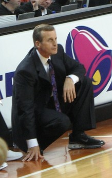 Rick Barnes on the sidelines during a Texas Longhorns basketball game Pic taken by me at a UT BB game Corpx 02:11, 10 May 2007 (UTC)